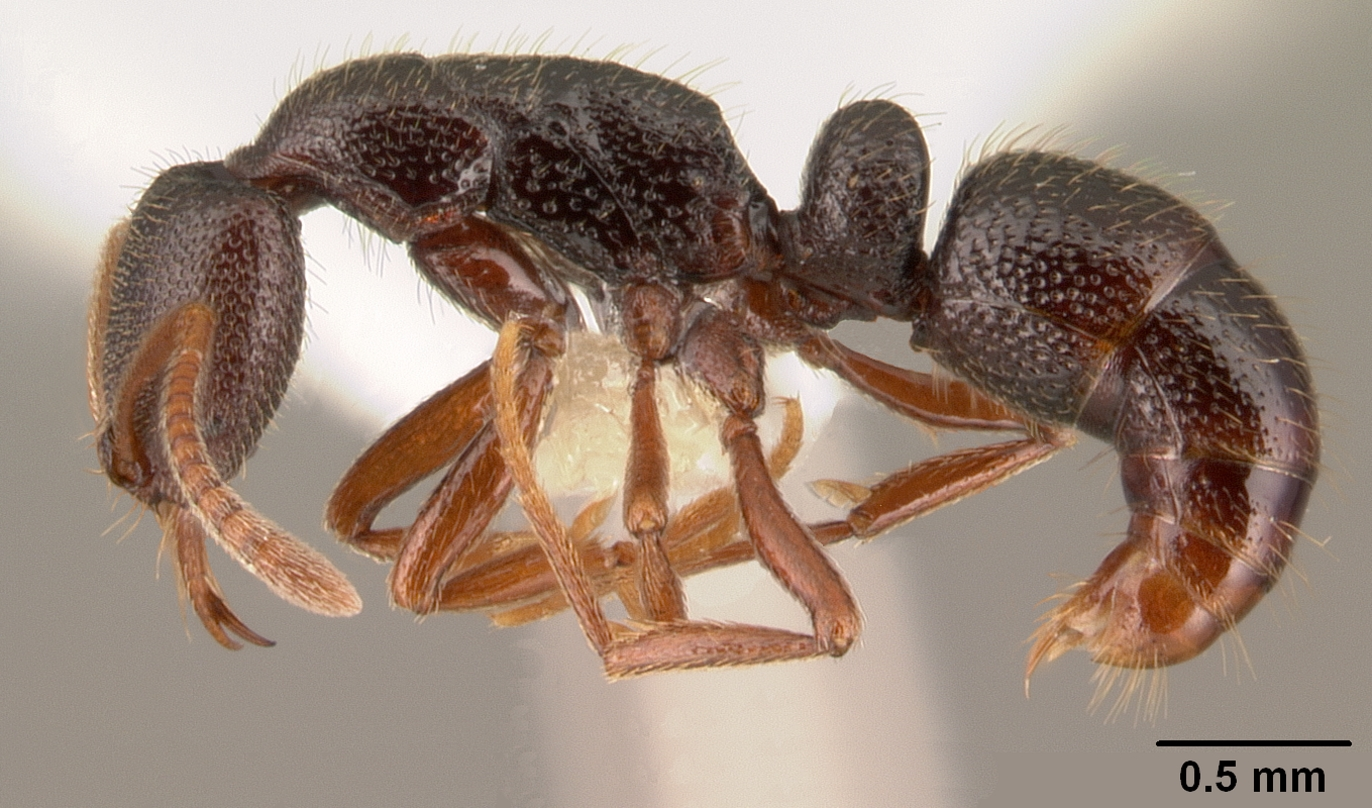 Profile view of ant Emeryopone buttelreepeni specimen casent0101953.